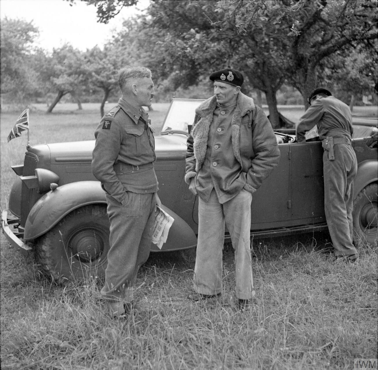 The British Army in Normandy 1944 General Montgomery in conversation with Major General D A H Graham, GOC 50th Division, 20 June 1944.